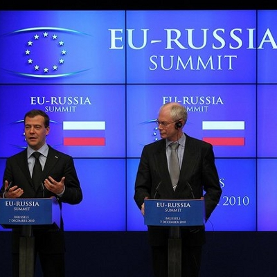 The joint news conference.